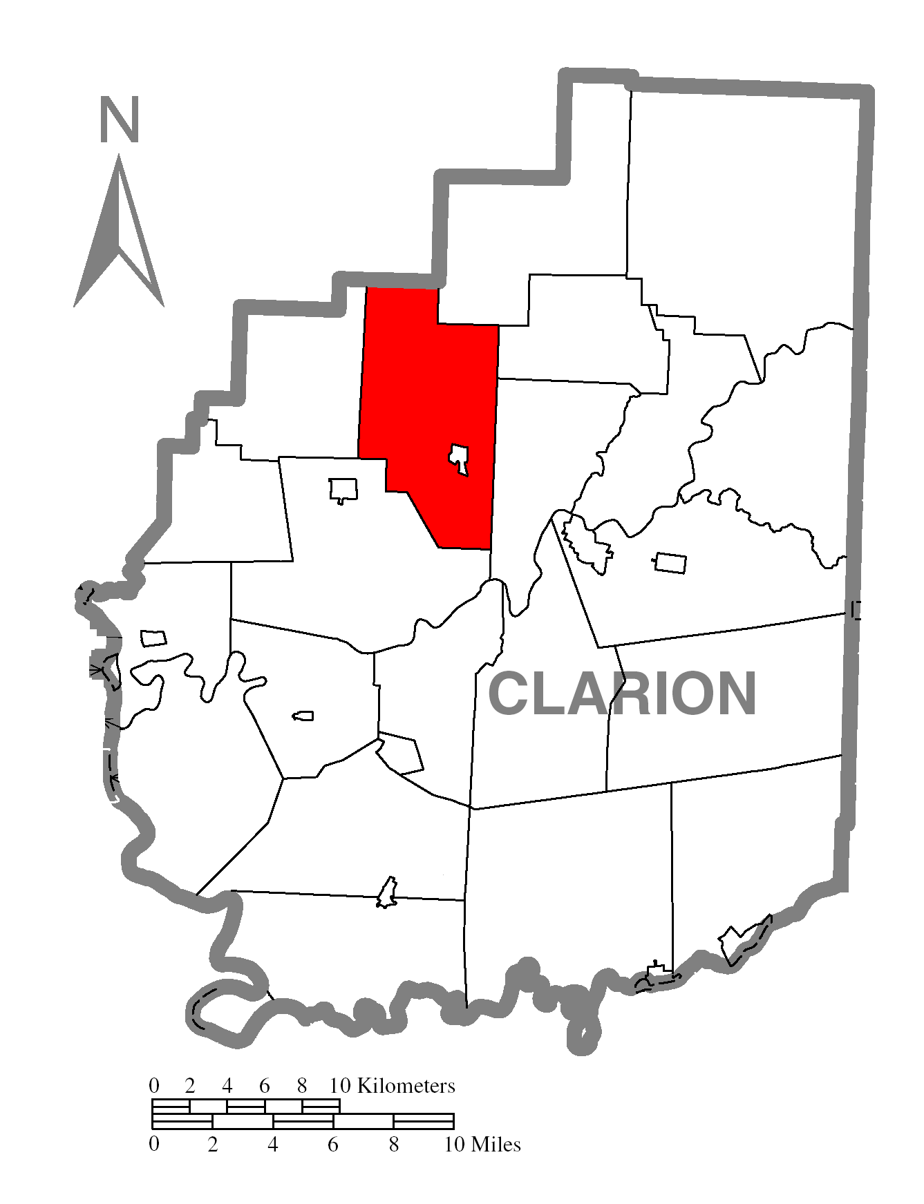 A map of Clarion County showing Elk Township, Pennsylvania (alternate) highlighted on the map.